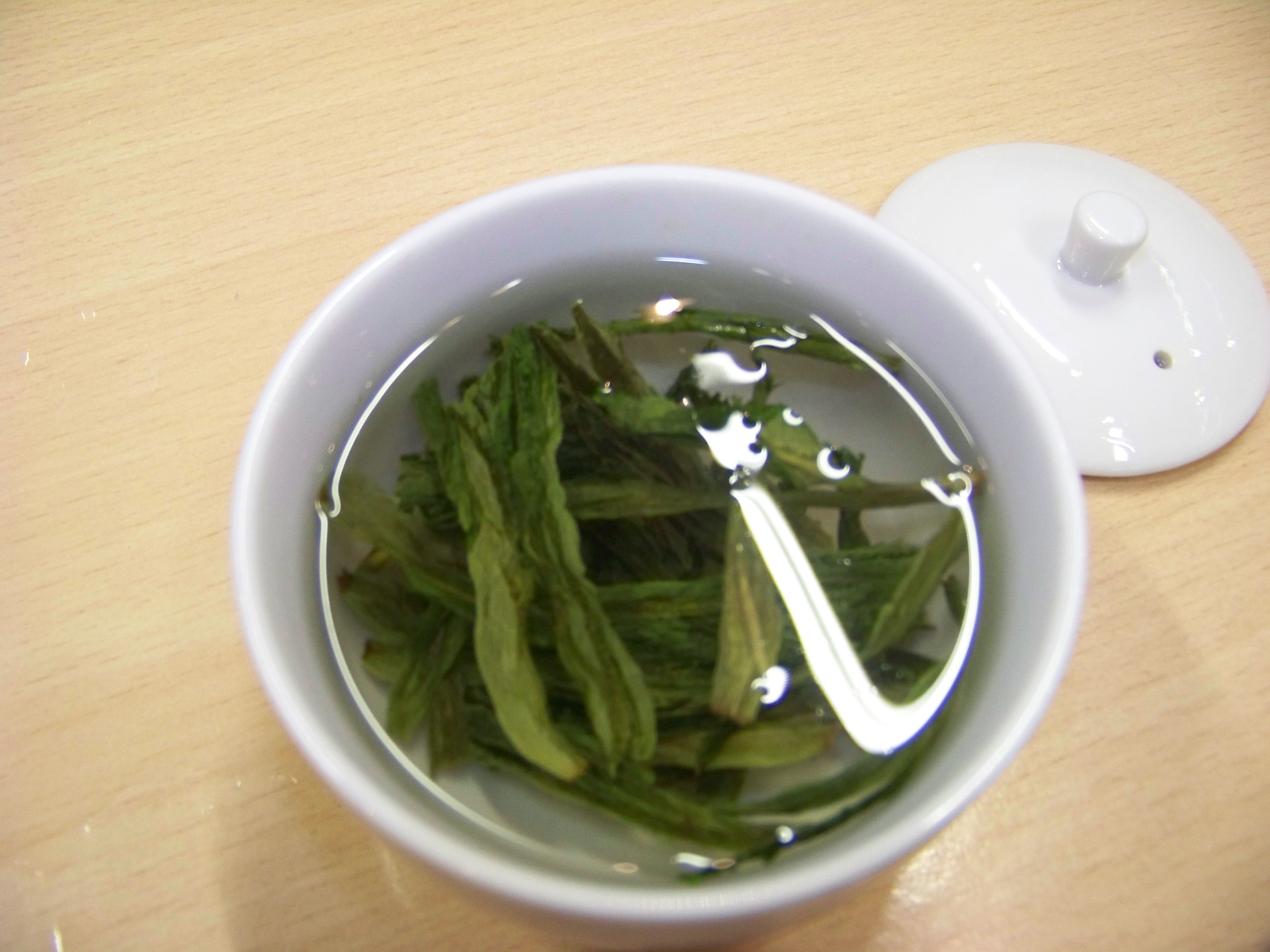 Święto Herbaty w Cieszynie